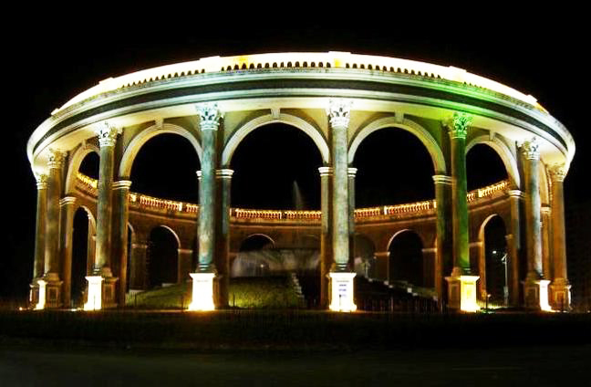 Utsav Chowk (circle) at Kharghar